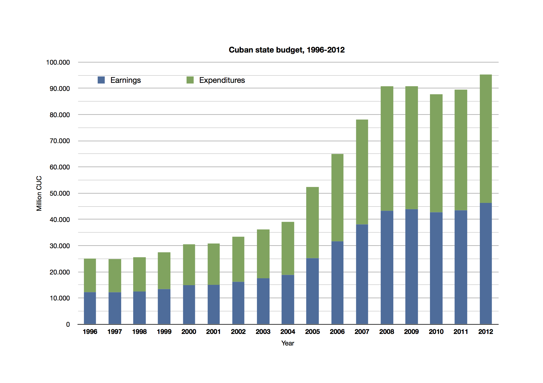 Cuban state budget, 1996-2012. According to: ONE and ONE 2012. Numbers of 2012: Projected.